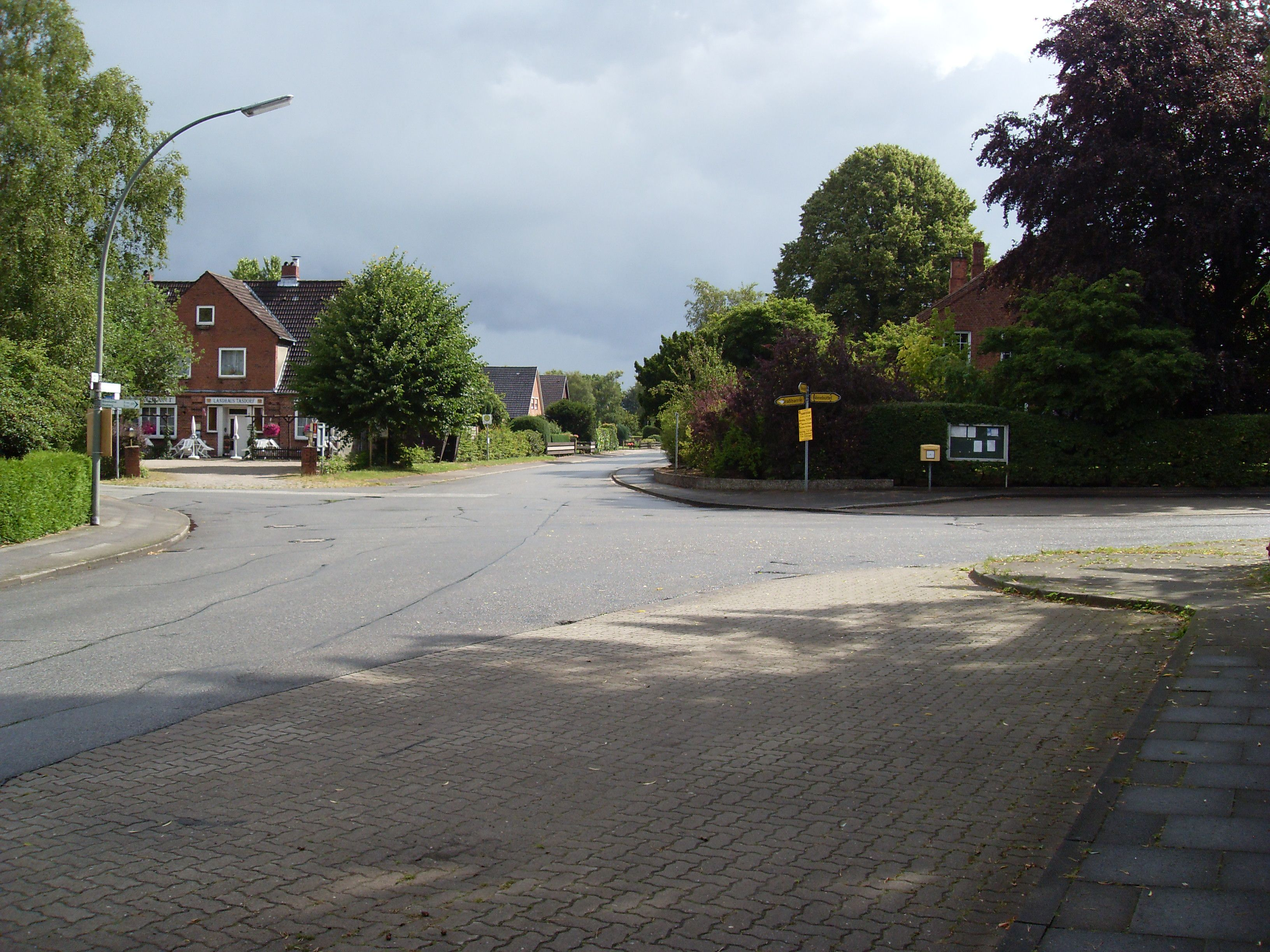 Tasdorf, close to Neumünster